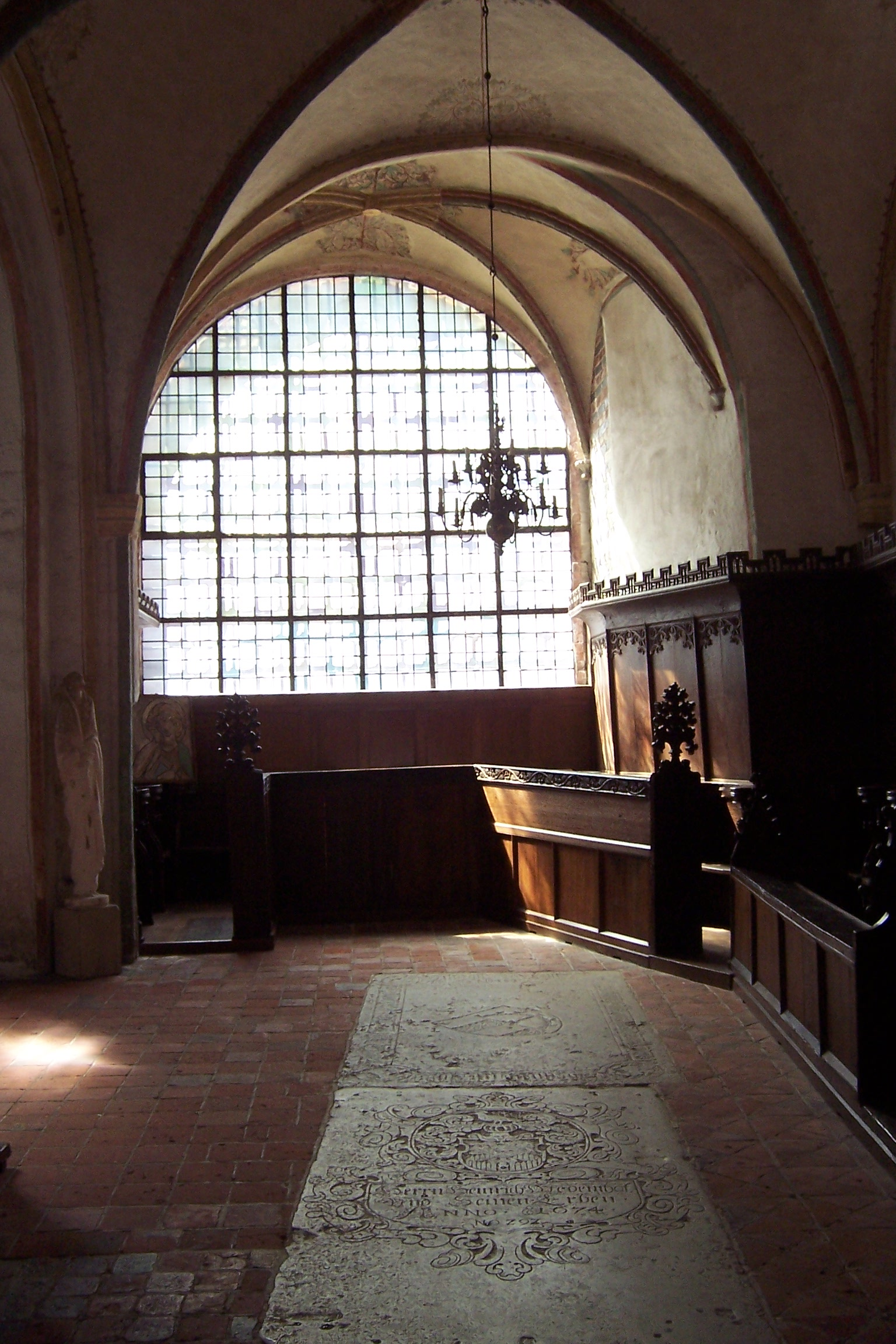 Look into the Bürgermeisterkapelle (Mayors' Chapel) in the Marienkirche, Lübeck